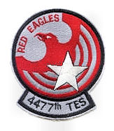 Emblem of the USAF 4477 Test and Evaluation Squadron (Officer)